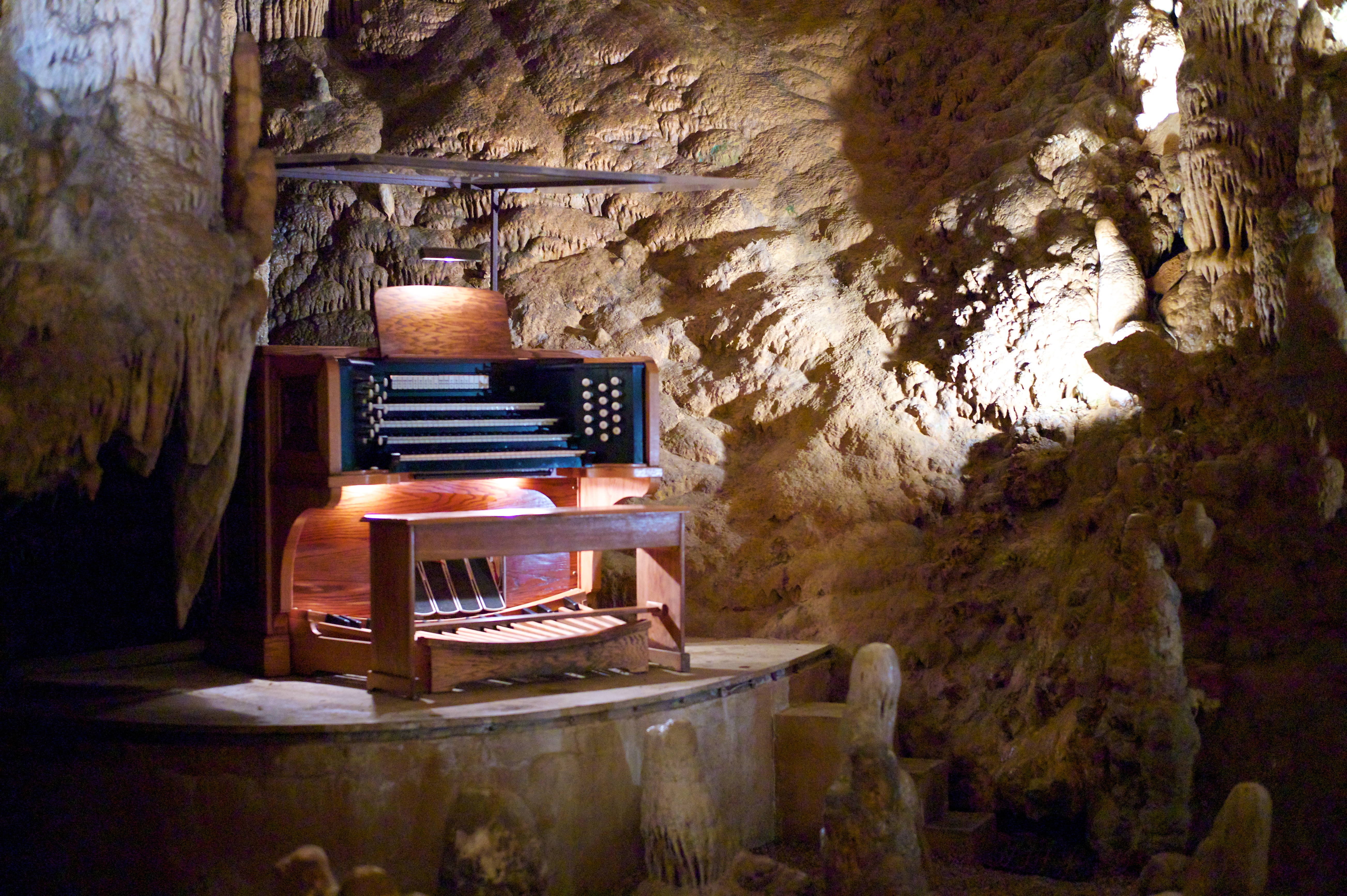 The Great Stalacpipe Organ booth at Luray Caverns